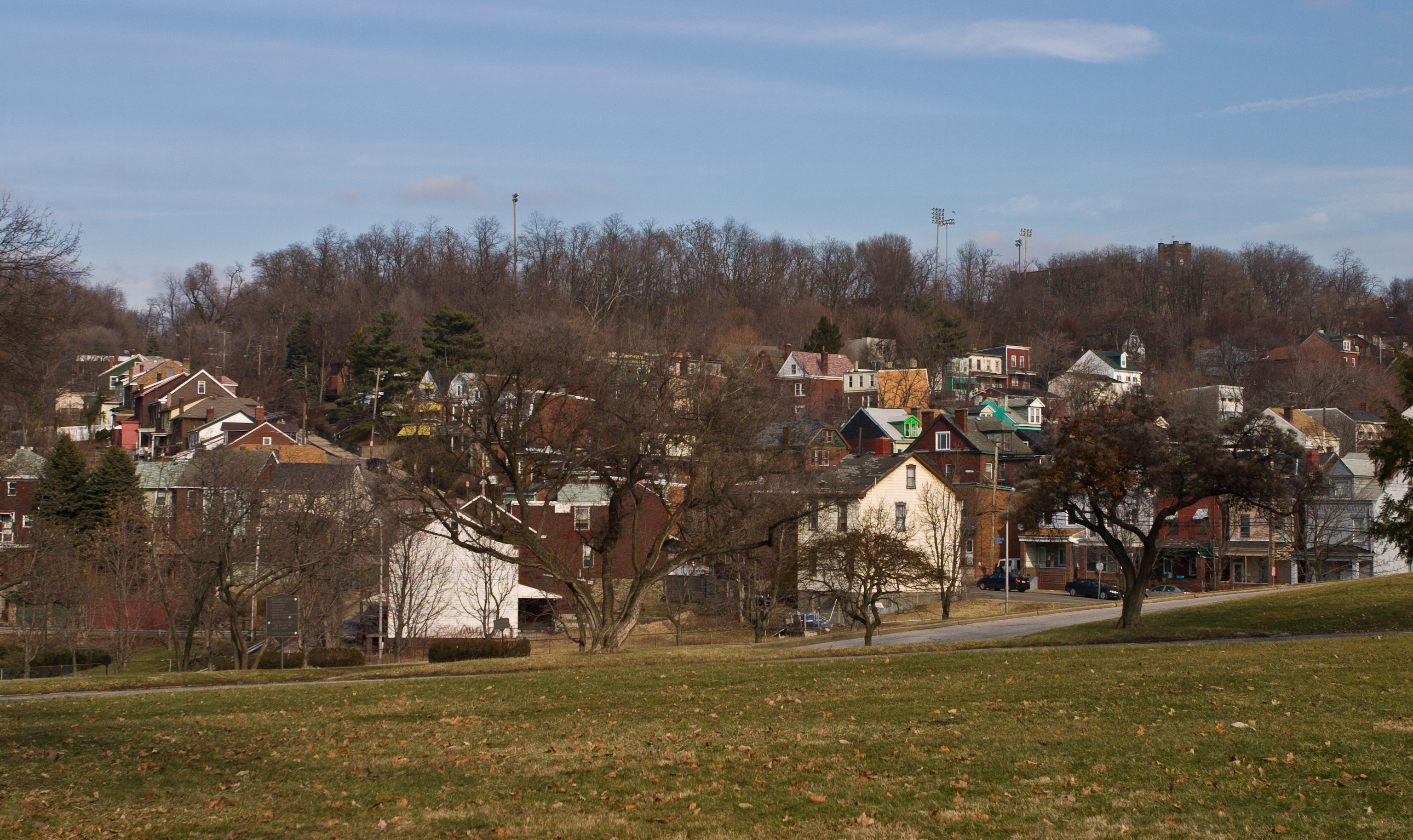 The west side of the Garfield neighborhood in Pittsburgh, Pennsylvania, as seen from Allegheny Cemetery.